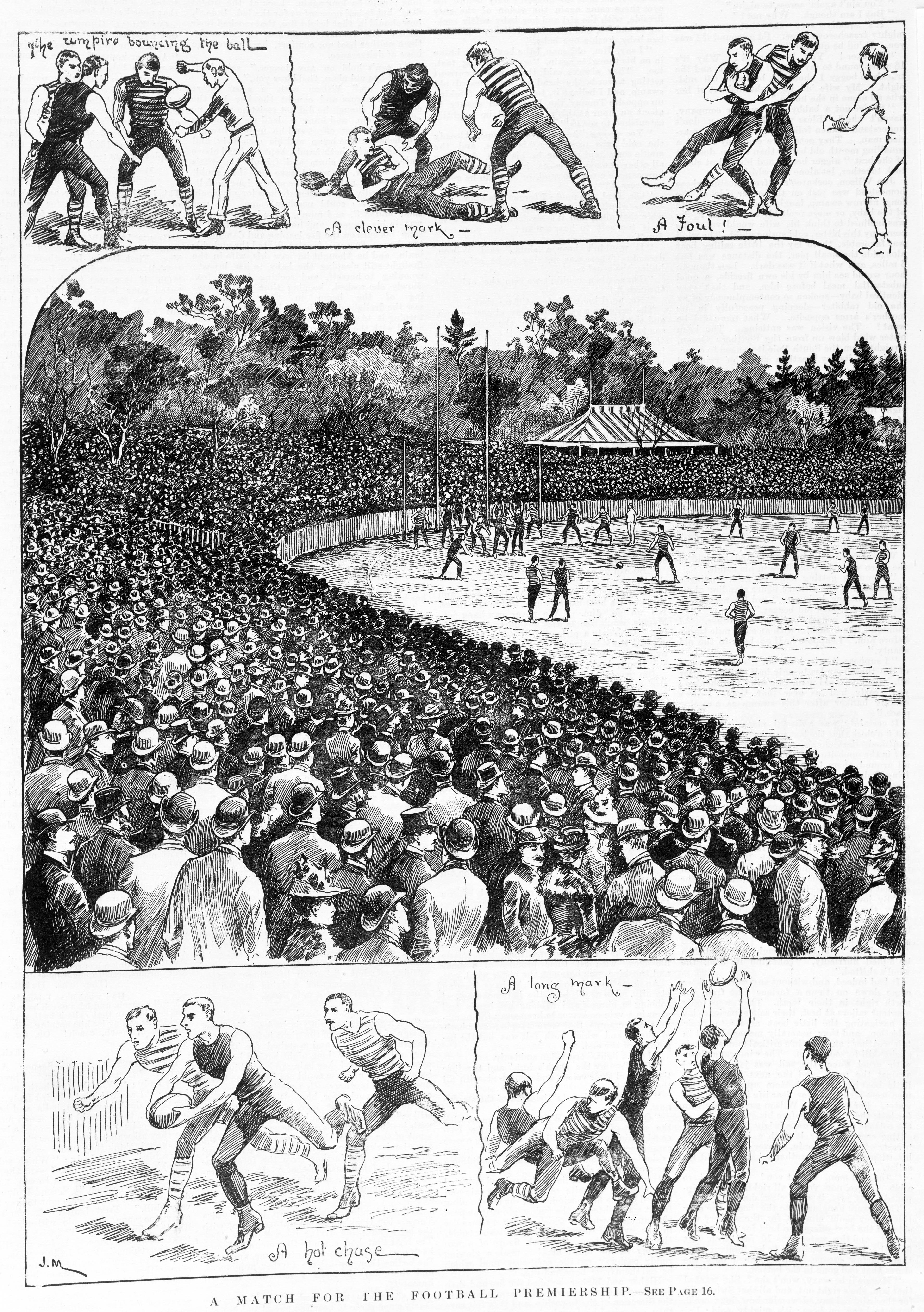 Scenes from the 1891 VFA Premiership Match between Essendon and Carlton, published in the Illustrated Australian News; wood engraving